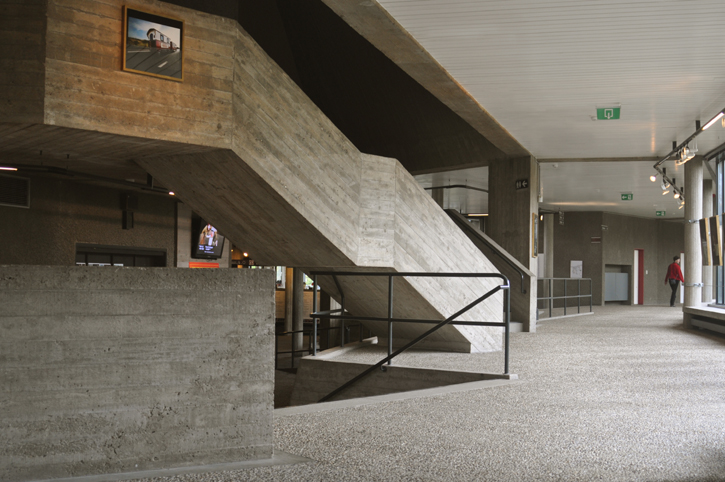 Inside street connecting several functions (theatre, library, gallery, playground, restaurant, ballroom, academy)